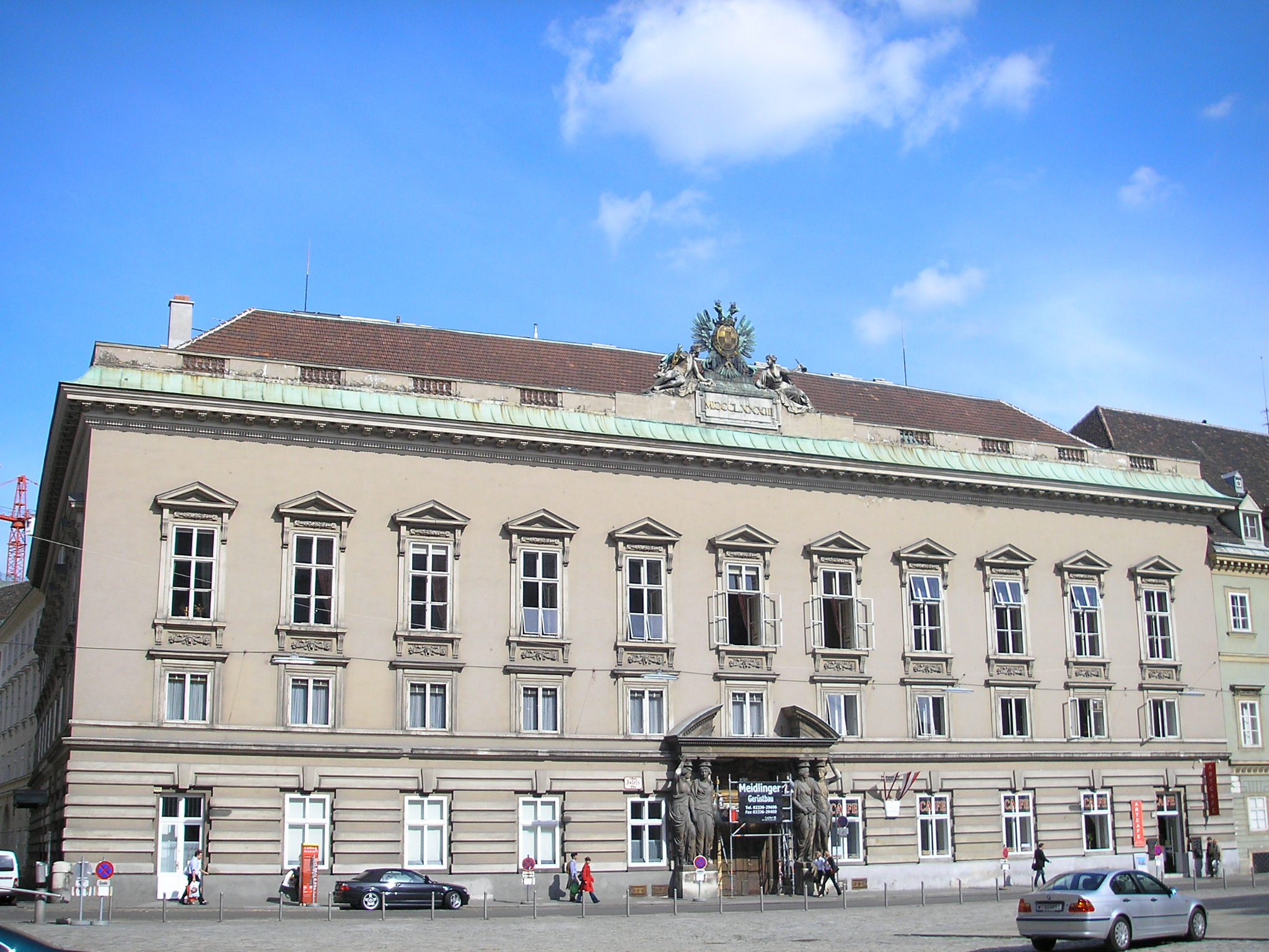 Detail of the Palais Pallavicini in Vienna, at Josefsplatz. Owned by the noble Pallavicini comital family.